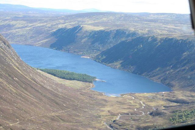 Loch Muick From a helicopter